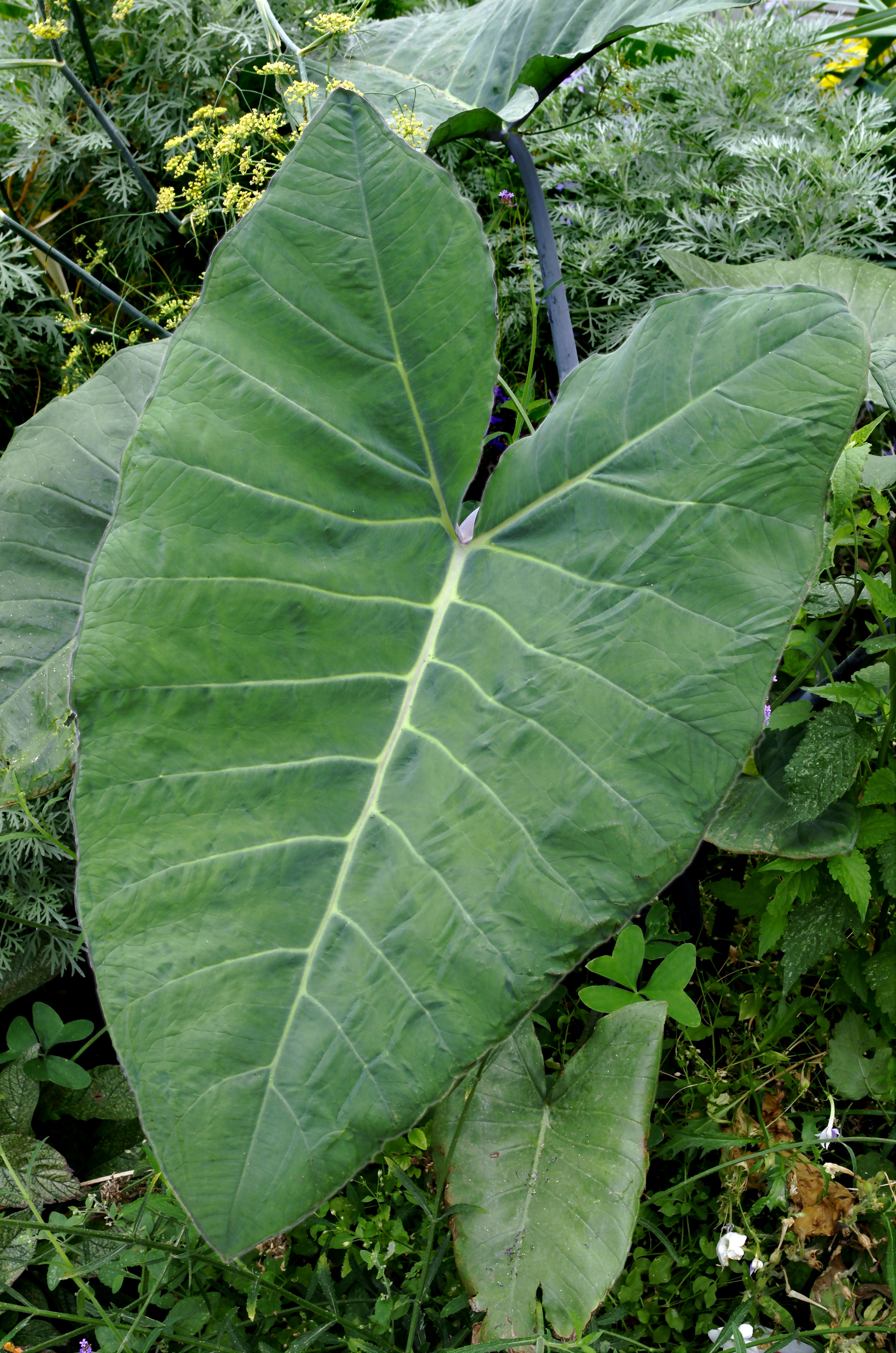 Taro (Colocasia esculenta), in a public garden, France. APG IV Classification: Domain: Eukaryota • (unranked): Archaeplastida • Regnum: Plantae • Cladus: angiosperms • Cladus: monocots • Ordo: Alismatales • Familia: Araceae • Subfamilia: Aroideae • Tribus: Colocasieae • Genus: Colocasia Schott (1832)